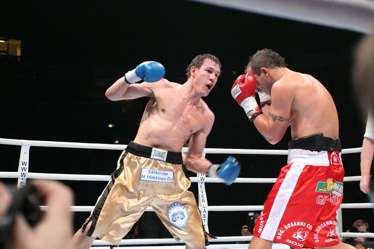 Professional boxing European champion (EBU) Amin Asikainen, Finland, versus Lorenzo di Giacomo, Italy, in Helsinki, Finland in januari 2007. Photo by Jonny Smeds.